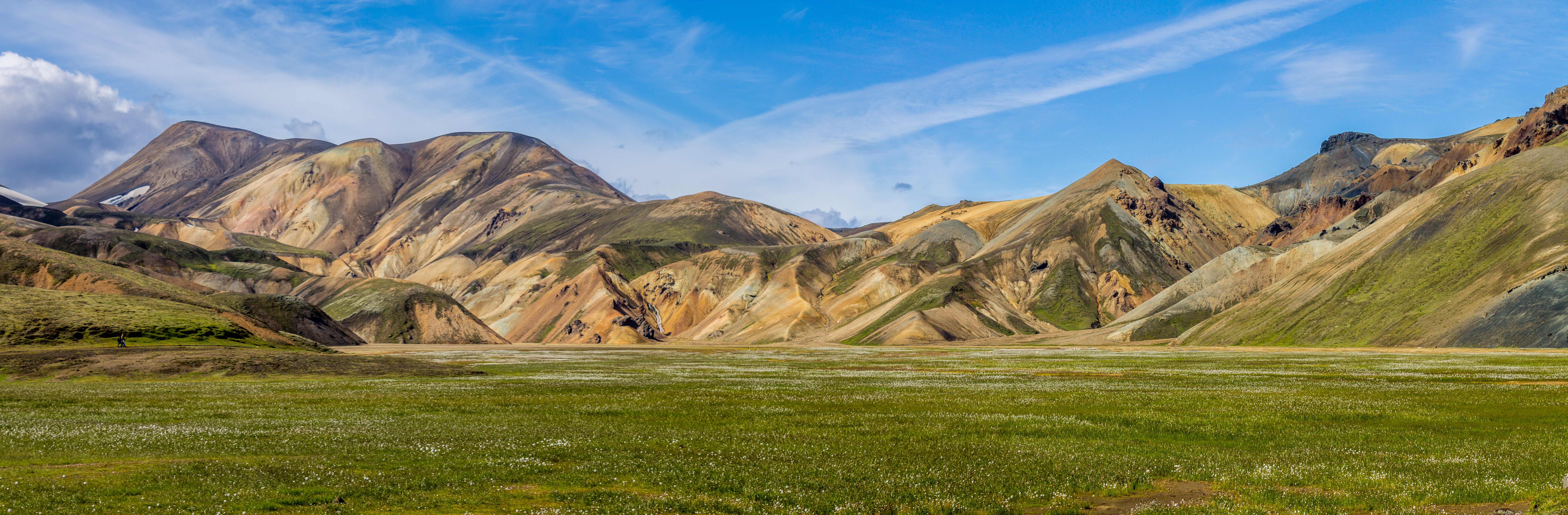 Landmannalauger, Iceland